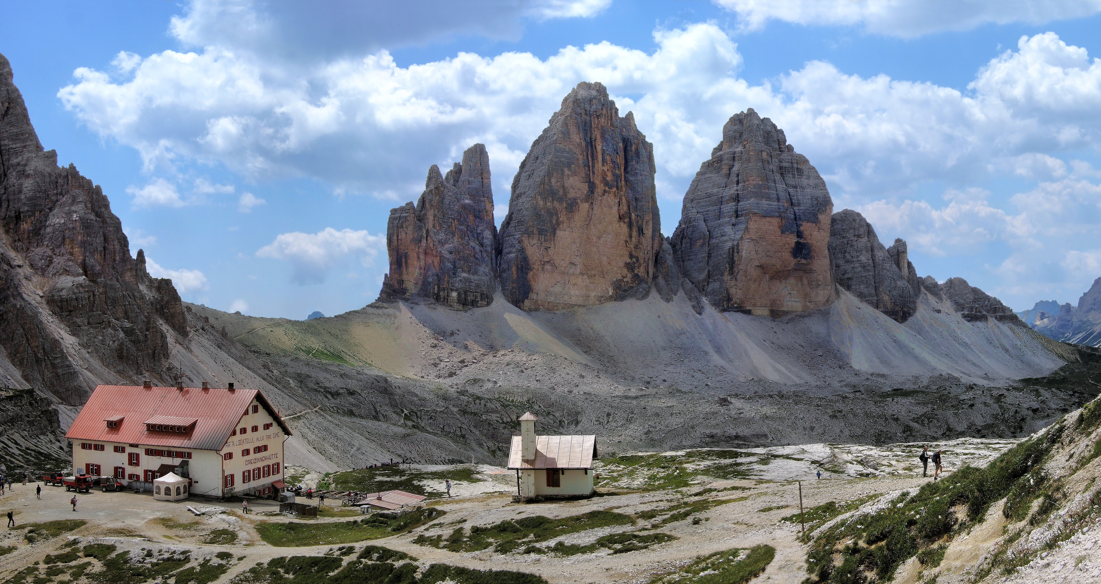 The photo shows the Drei Zinnen (Tre Cime) in the Sexten Dolomites. In front of it the Dreizinnenhütte and a small chapel. It was composed of six individual photos.